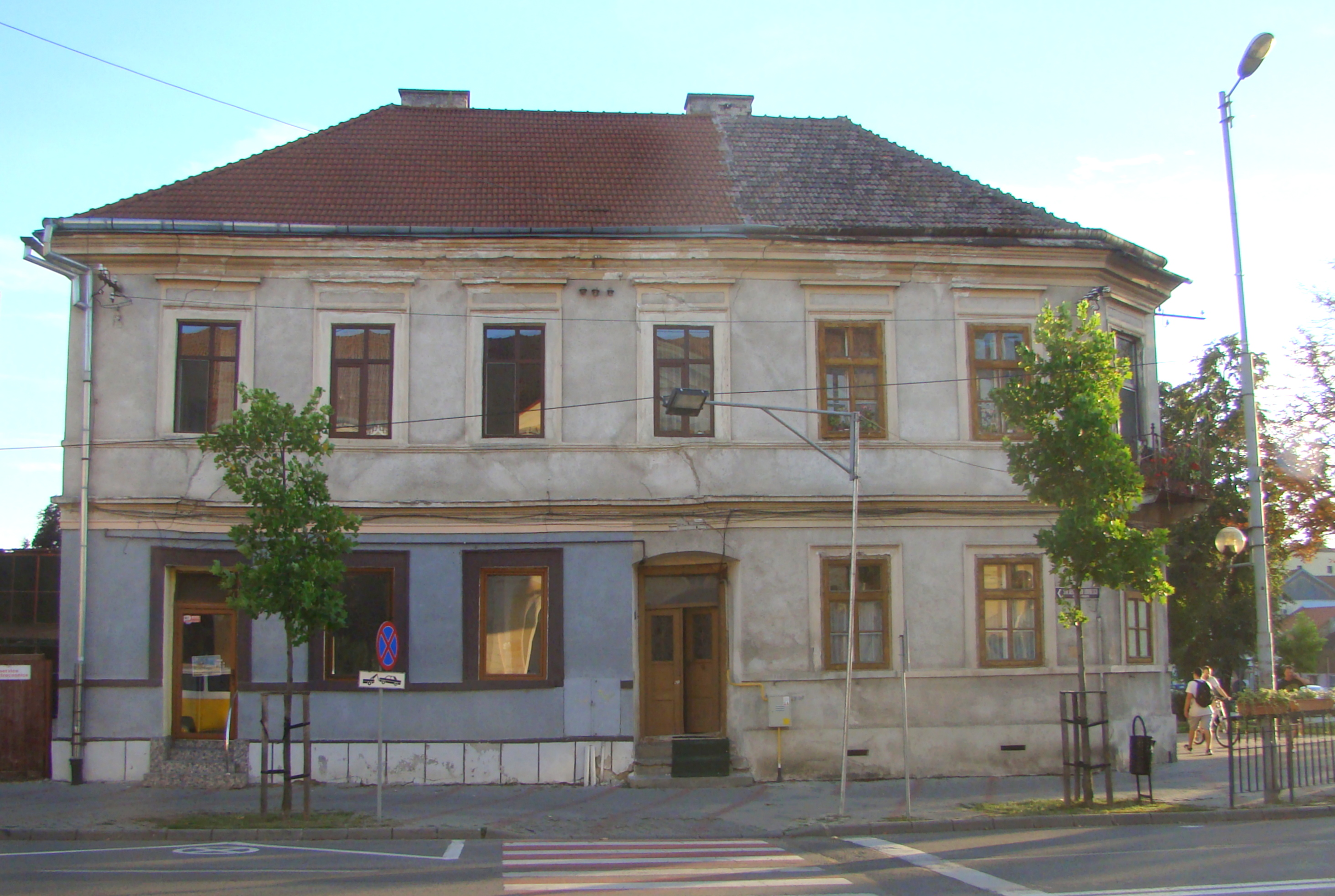 House, historic monument, in Bistrița, Alexandru Odobescu street 2